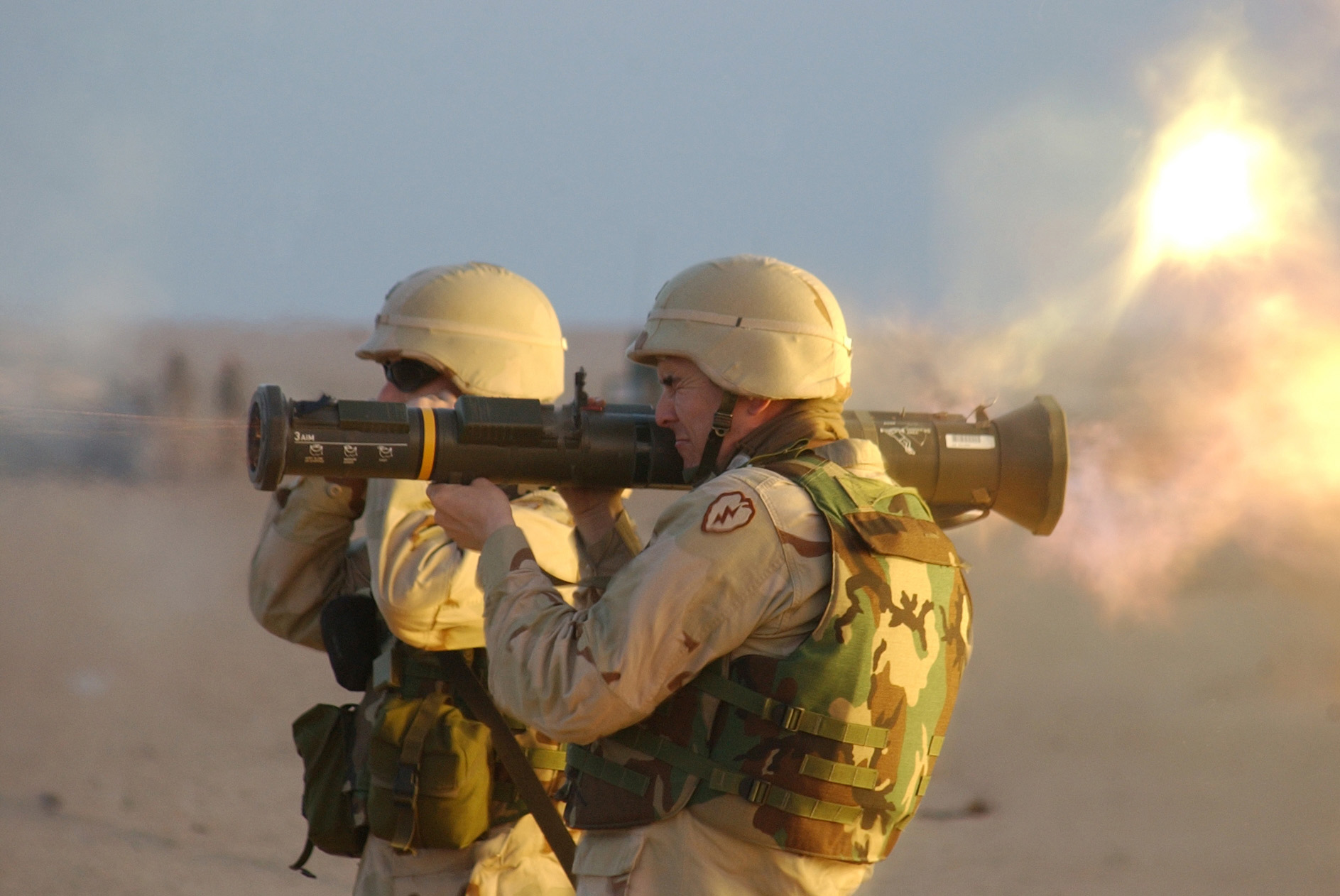 Original caption reads: Spc. Thomas Johnson shoots an Swedish AT-4 anti-tank weapon during familiarization training at the Udari range in Kuwait. Johnson is a legal specialist assigned to the 25th Infantry Division's Headquarters and Headquarters Company, 2nd Brigade Combat Team. Soldiers of the division recently deployed in support of Operation Iraqi Freedom. U.S. Army photo by Spc. Sean Kimmons. (RELEASED)